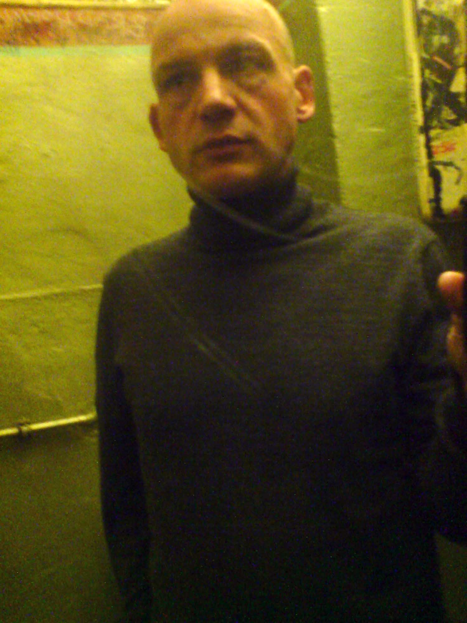 ralf b. korte in mysliwska